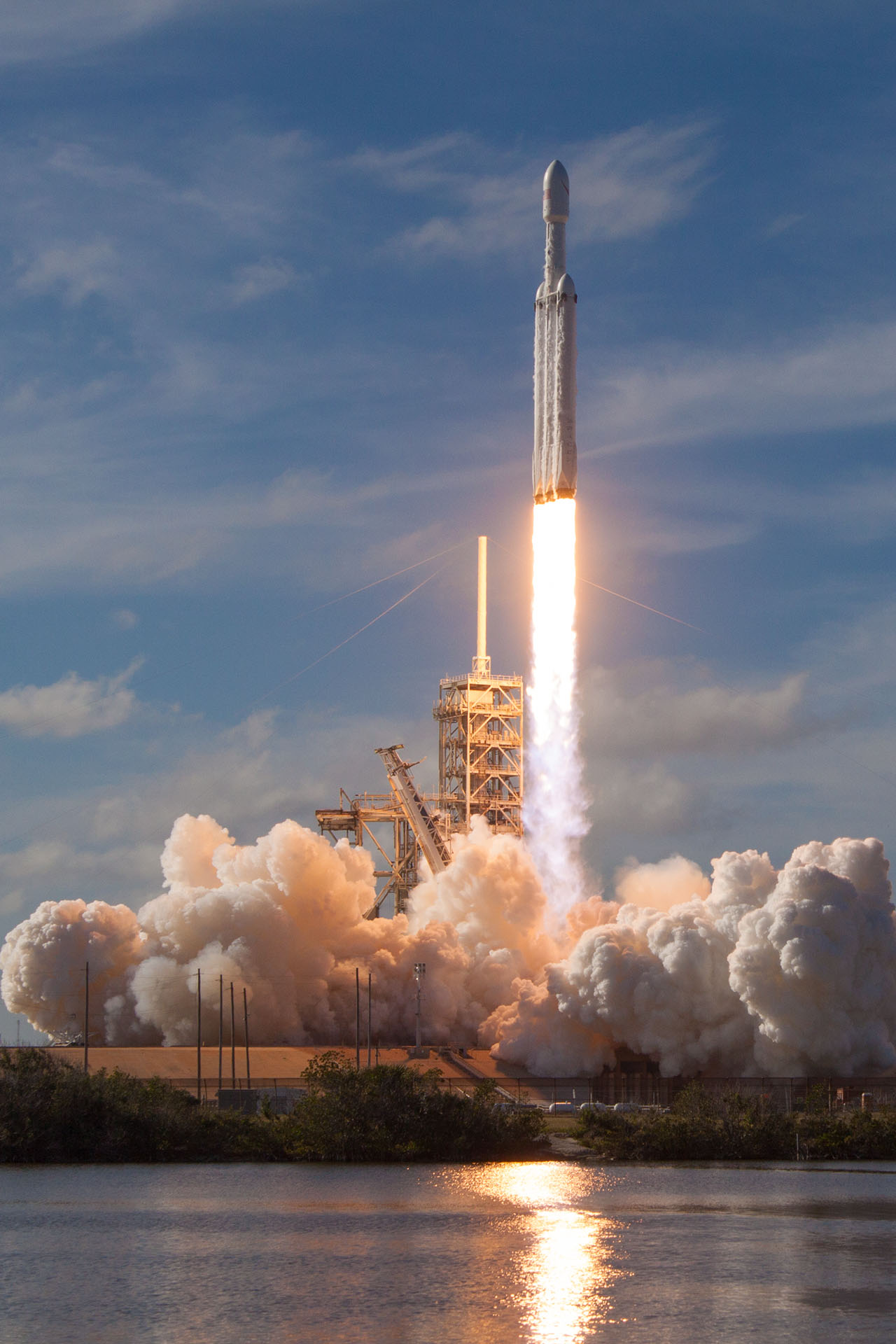 Falcon Heavy demo launch